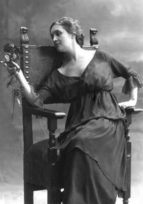 Mario Nunes Vais: "Italian writer Sibilla Aleramo", 1917.